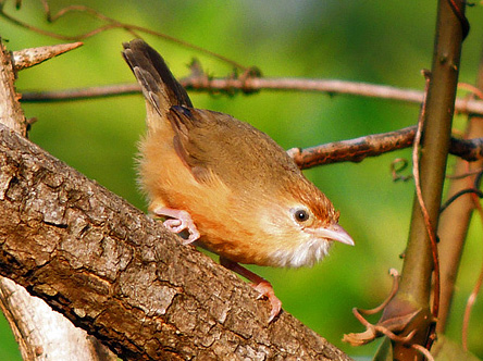 Tawny-Bellied or Rufous-Bellied Babbler (Dumetia hyperythra)